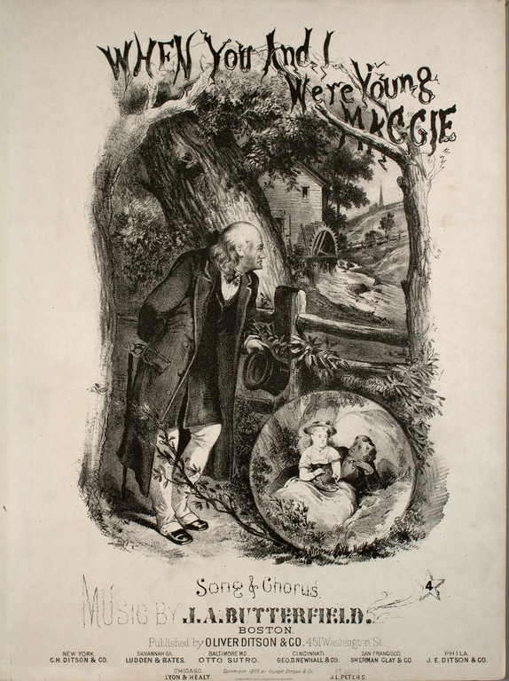 Sheet music cover for "When You and I Were Young, Maggie" by James Austin Butterfield (music) and George Washington Johnson (lyrics). Song was first published by Butterfield in Indianapolis 1866. This cover, which has different artwork, was subsequently published by Oliver Ditson & Co. Perhaps in 1866, but if not 1866, certainly well before 1923, and clearly in the public domain. Full sheet music available at the Levy Sheet Music Collection.